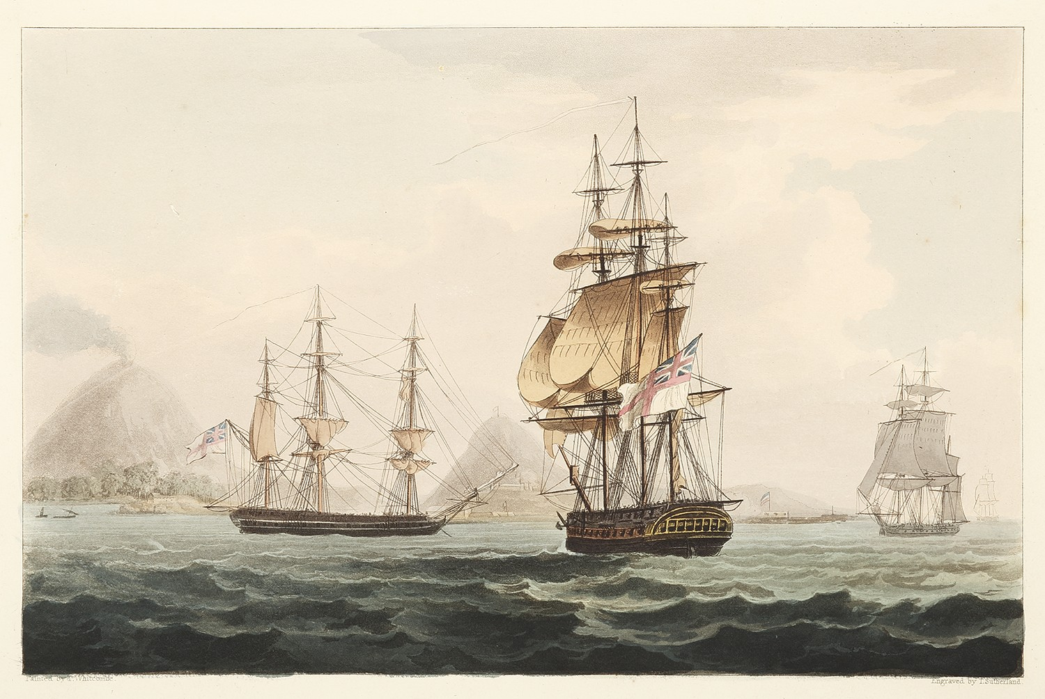 Capture of the Island of Banda, August 9th 1810 (HMS Caroline)